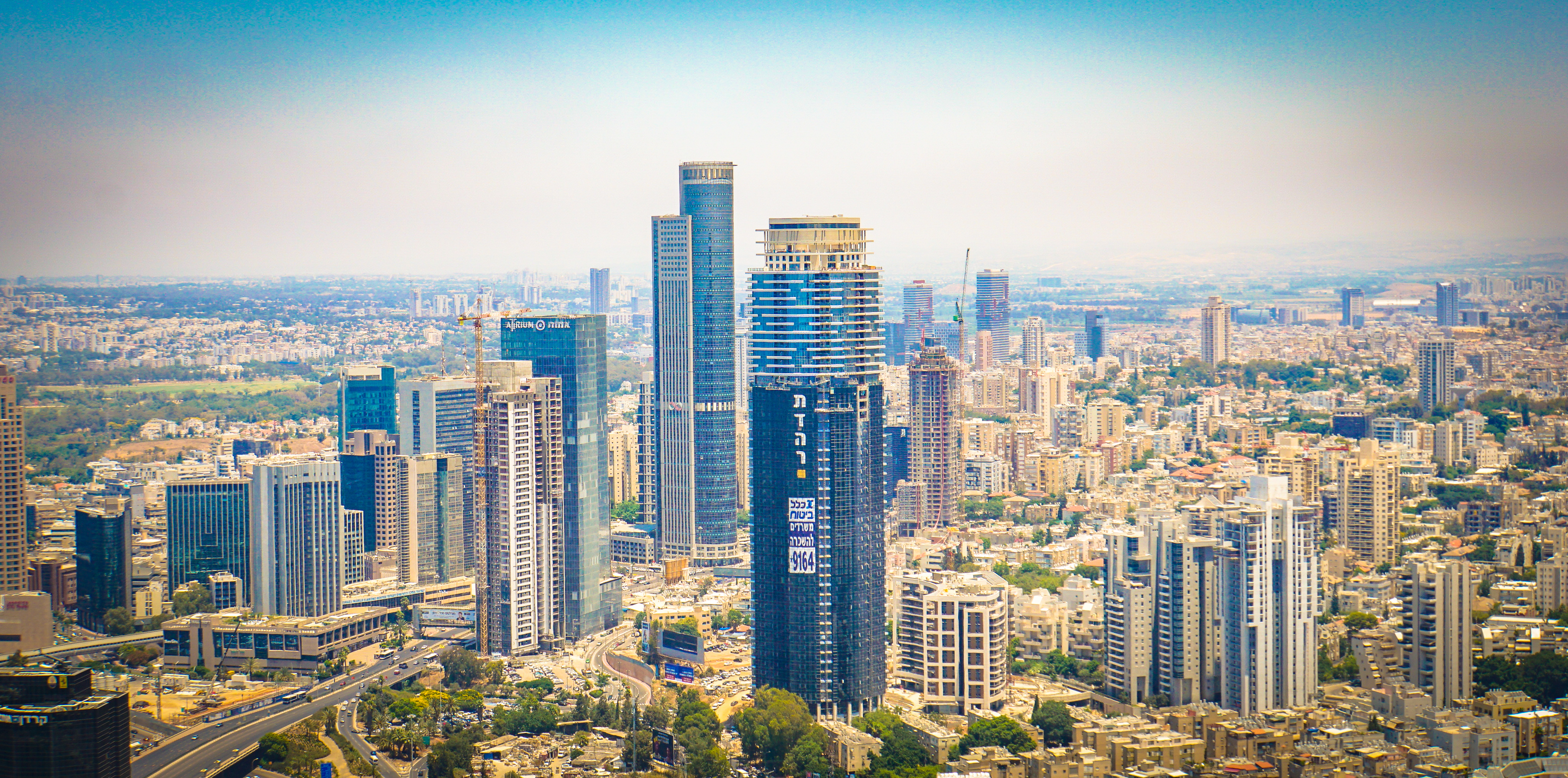 Photos taken from the top of Azrieli Center Circular Tower, currently the tallest building in Israel, at 53 stories. Azrieli Sarona, when finished, will be the tallest building at 73 stories. An even taller building, Rockefeller Center, has been commissioned and will be 80 stories tall. In the views, you can see Azrieli Sarona under construction, Shalom Tower, from 1965-1999 the tallest building in Israel at 36 stories, as well as Port of Tel Aviv with Sde Dov Airport. The Electra (Elco) Tower, also pictured, houses Google Israel and is currently the 3rd tallest building. See: See: Thanks for publishing my photo @GeektimeCoIL in בדקנו: כמה יעלה לכם להריץ סטארטאפ בערים השונות בארץ? | גיקטיים – Ted Eytan, MD